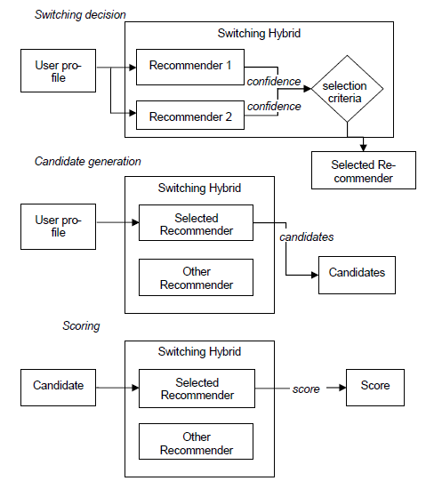 Sistema de Recomanació Híbrid, Commutació